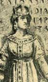 Bertha of Savoy, Holy Roman Empress